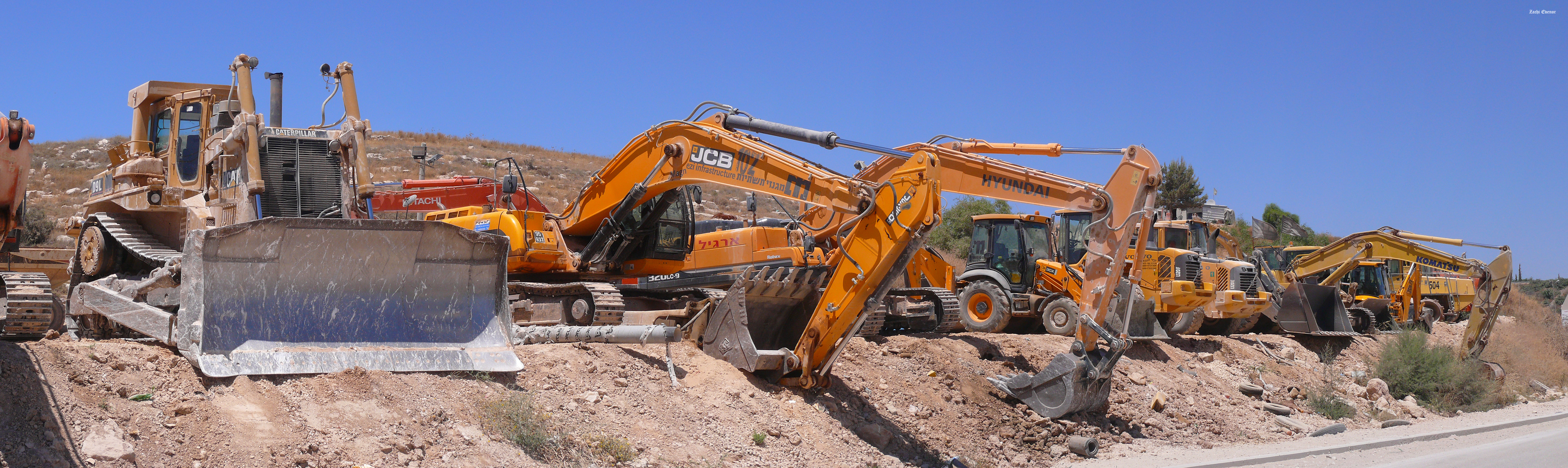 Panorama of heavy equipment including Caterpillar D9L bulldozer and various excavators, near the Bareket quarry, Israel